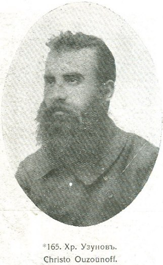 macedonian from Ohrid Hristo Uzunov